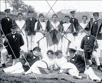 Rowing club "Fidelia" founded 1877/1911 in Tübingen